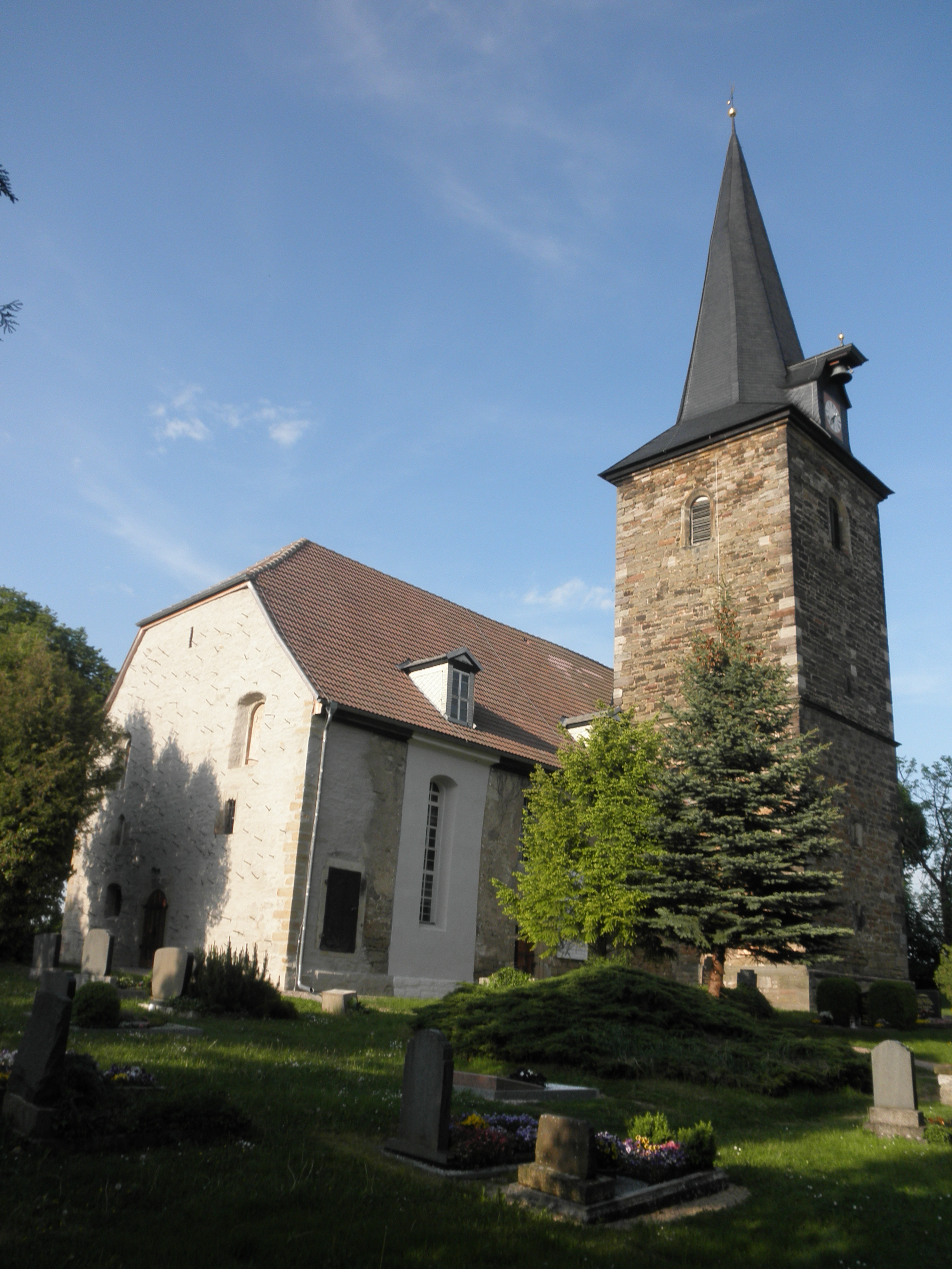 Church of Kirchheim, Ilm-Kreis, Thuringia, Germany